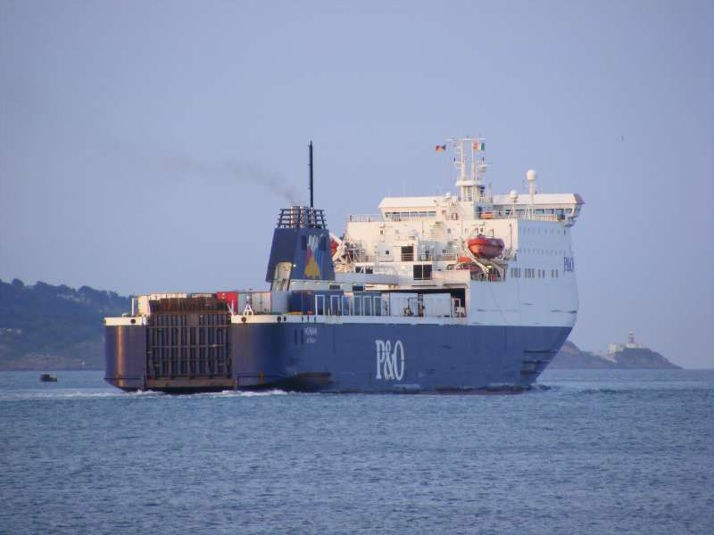 P&O ferry MS Norbank